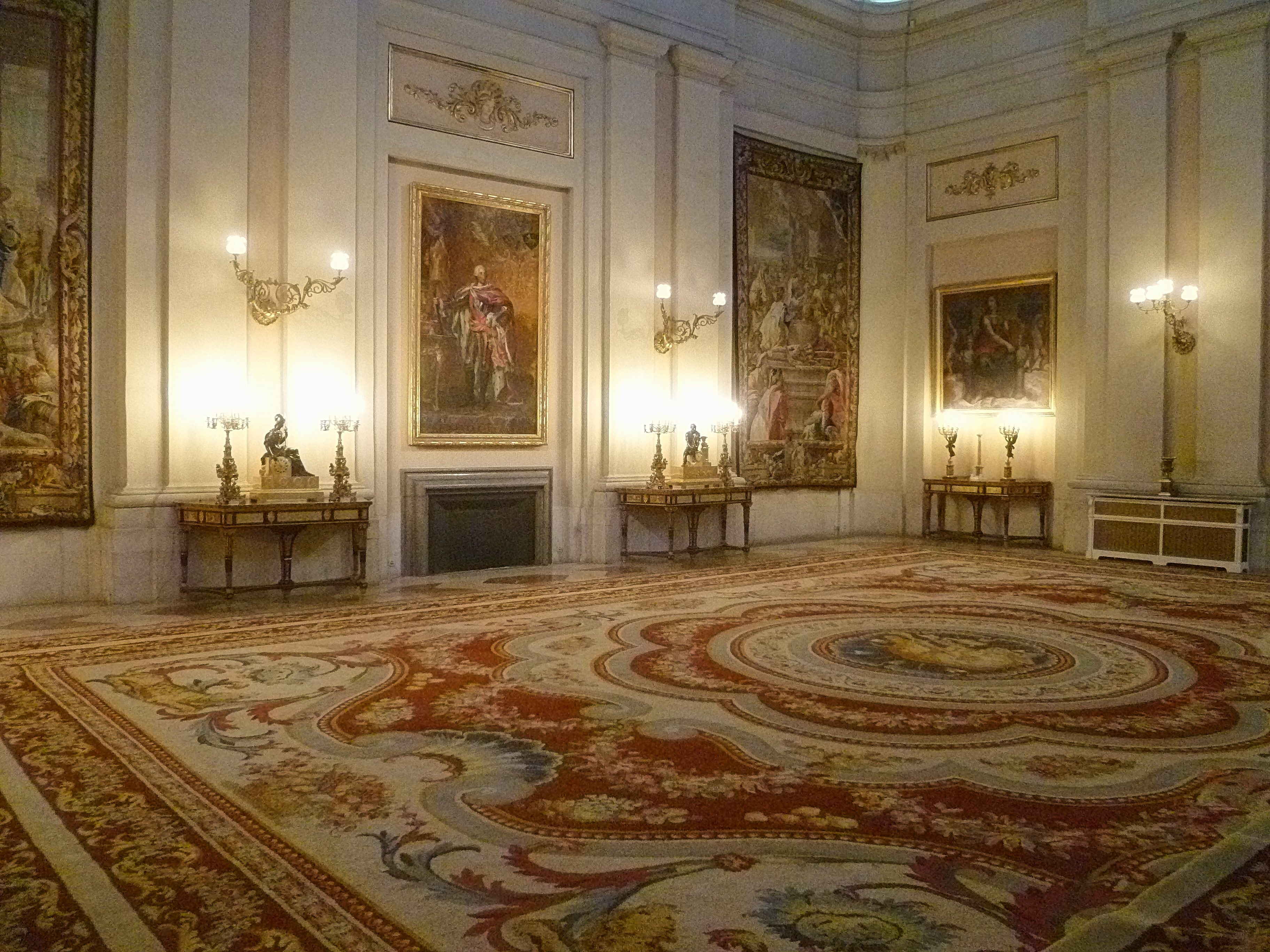 Hall of Halberdiers, Royal Palace, Madrid, Spain